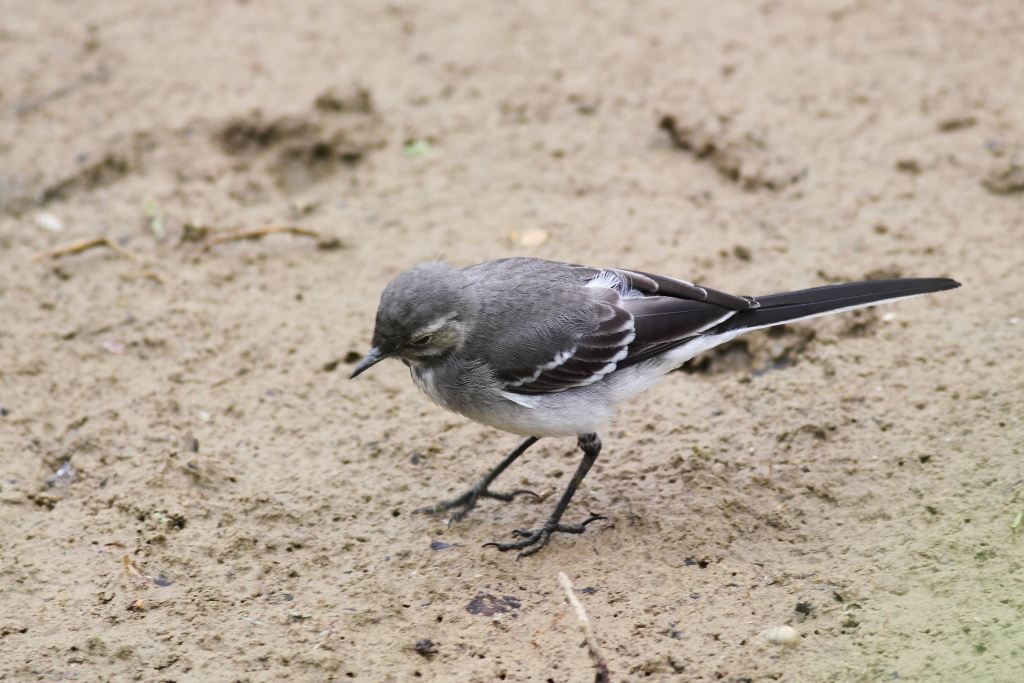 A juvenile White Wagtail near Rutland Water, Rutland, England. This sub-species is also called the Pied Wagtail.